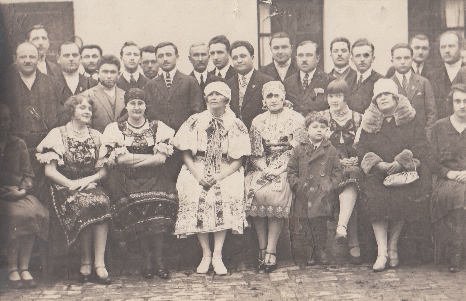 Celebration of the 25th anniversary of the Slovak Theater in Stara Pazova (1928). Inventory number 1812. Srpski (latinica): Proslava 25. godišnjice Slovačkog pozorišta u Staroj Pazovi (1928). Inventarski broj 1812.